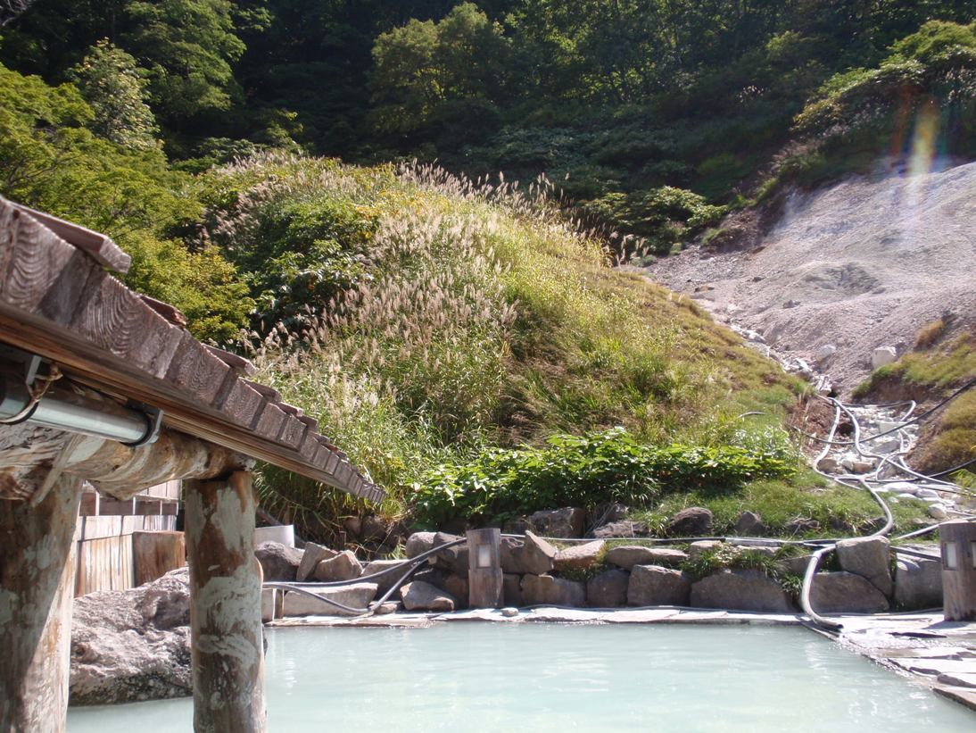 Doroyu spa in Yuzawa, Akita.